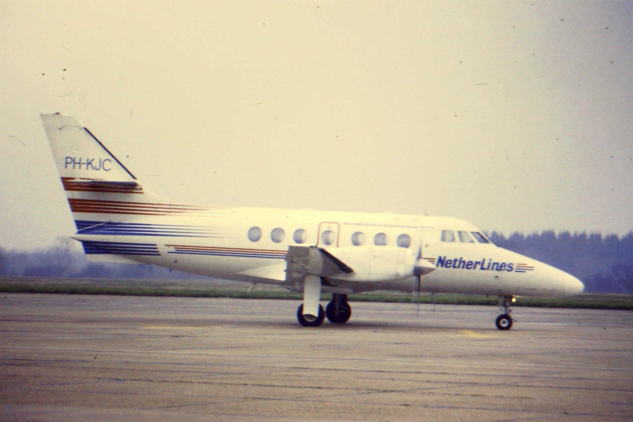 Operating the AMS route once Air UK has left the route was Netherlines using the small Jetstream to feed KLM.